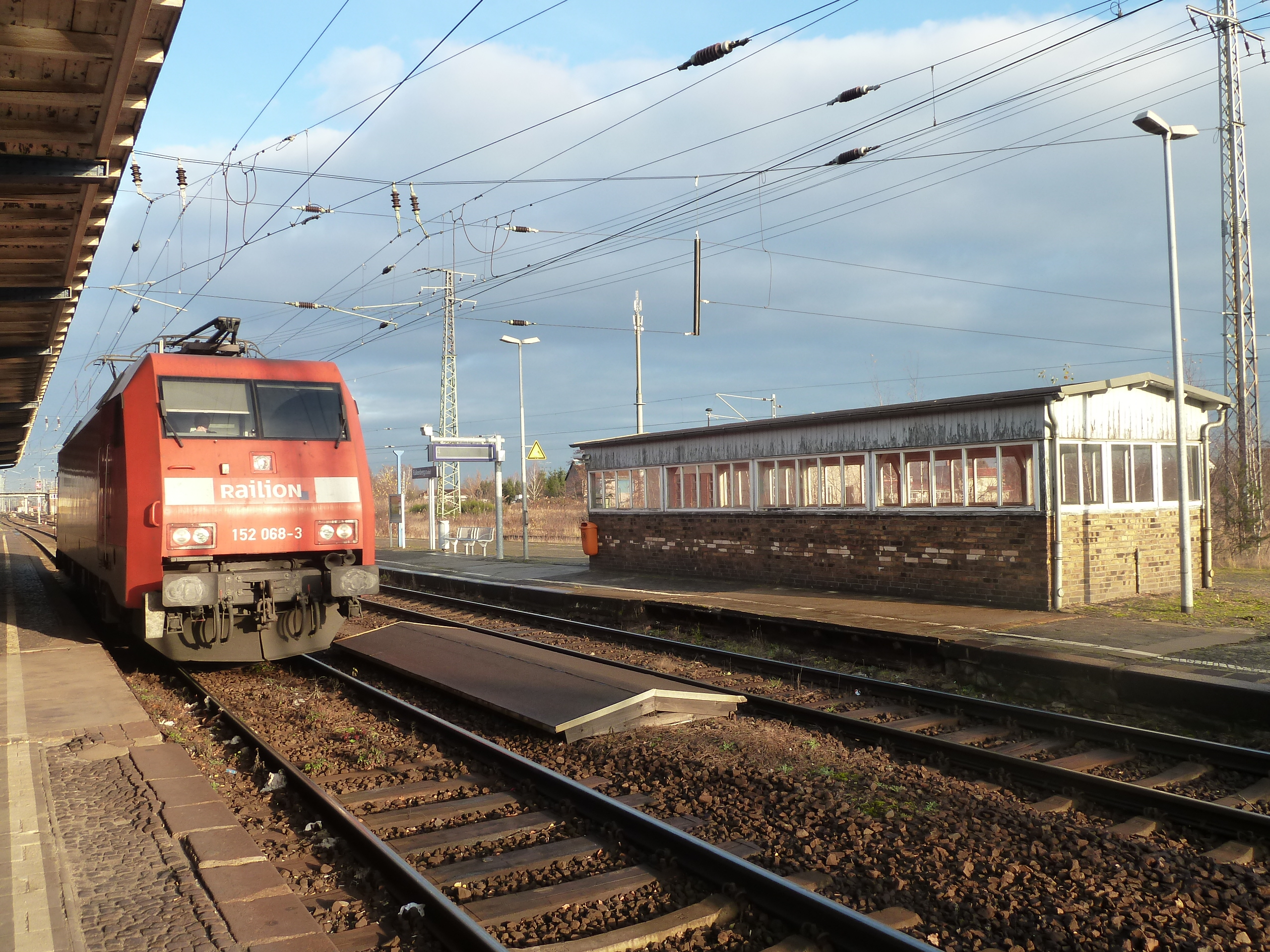 Falkenberg Elster Railway Station, platform 3,4,5